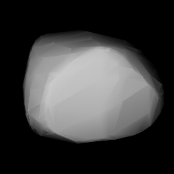 3D convex shape model of 1171 Rusthawelia, computed using light curve inversion techniques. J. Hanuš, J. Ďurech, M. Brož, B. D. Warner (June 2011). "A study of asteroid pole-latitude distribution based on an extended set of shape models derived by the lightcurve inversion method". Astronomy and Astrophysics 530: A134. ISSN 0004-6361. arXiv